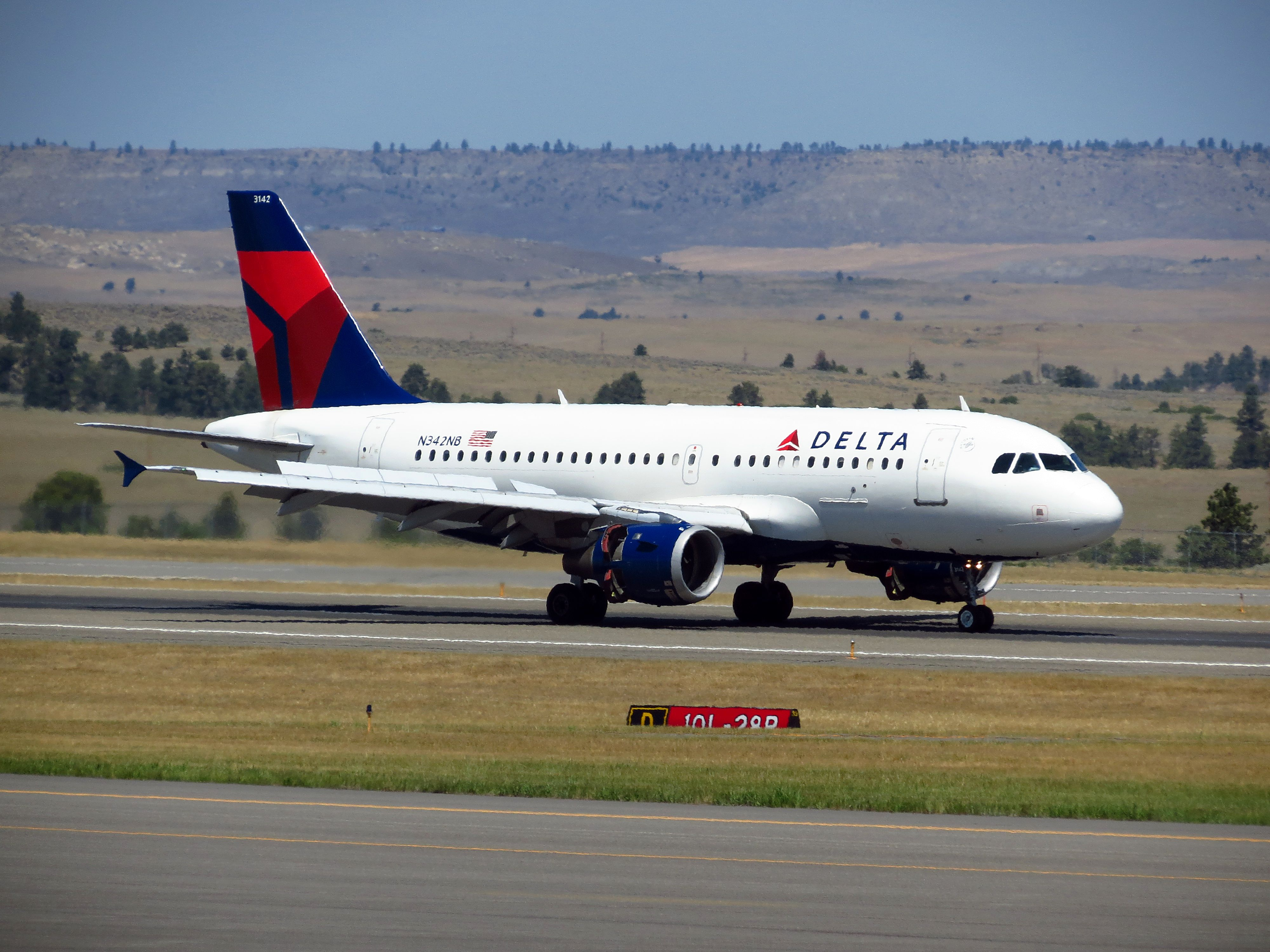 Delta Air Lines Airbus A319-100 Billings Logan International Airport